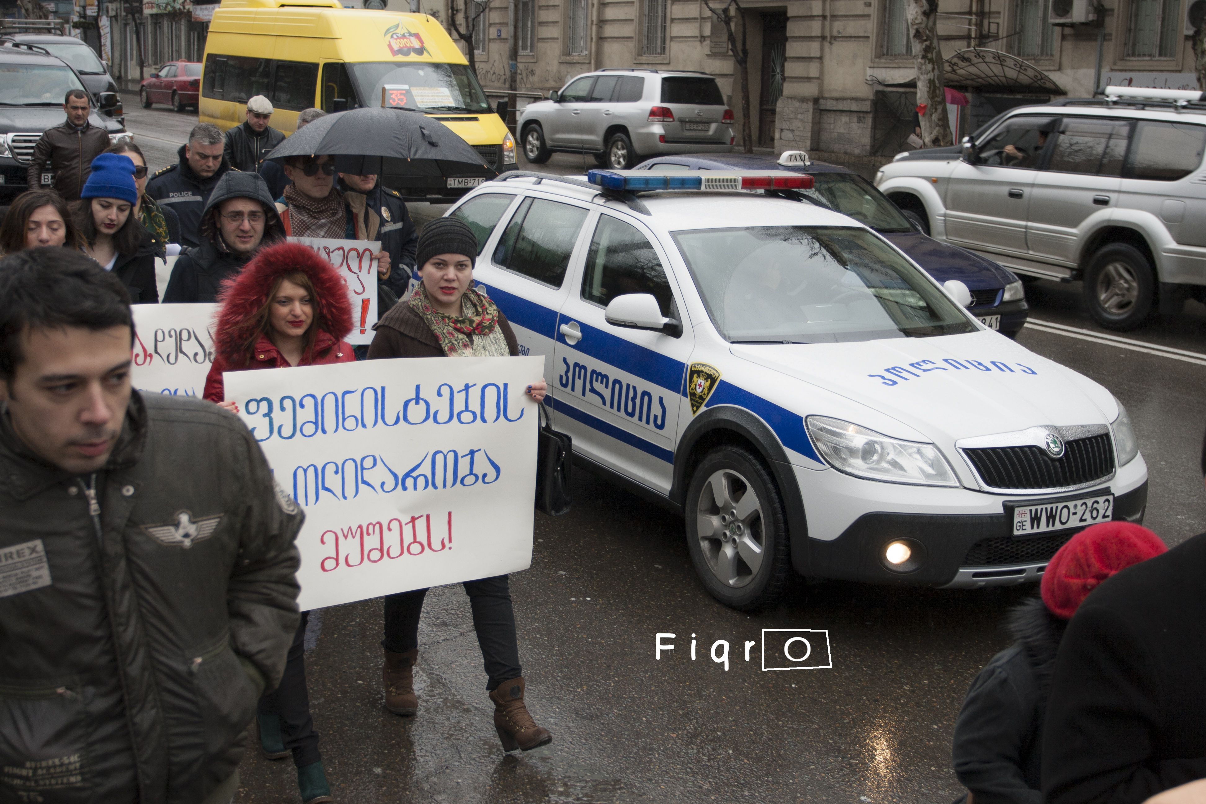 Feminists independent group's action